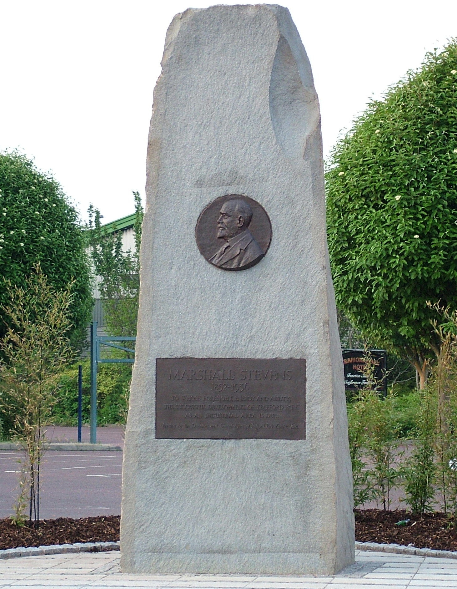 Memorial to Marshall Stevens, General Manager of Trafford Park Estates. Located at the junction of Third Avenue and Eleventh Street in Trafford Park Village.